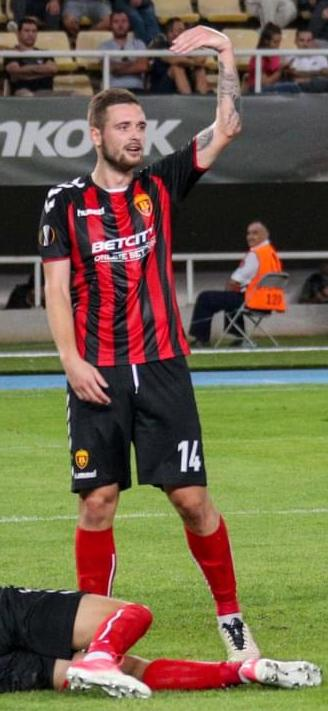 14.09.2017. Македония, Скопье, стадион «Филипп II Македонский». Лига Европы УЕФА 2017/18, 1-й тур, «Вардар» — «Зенит».